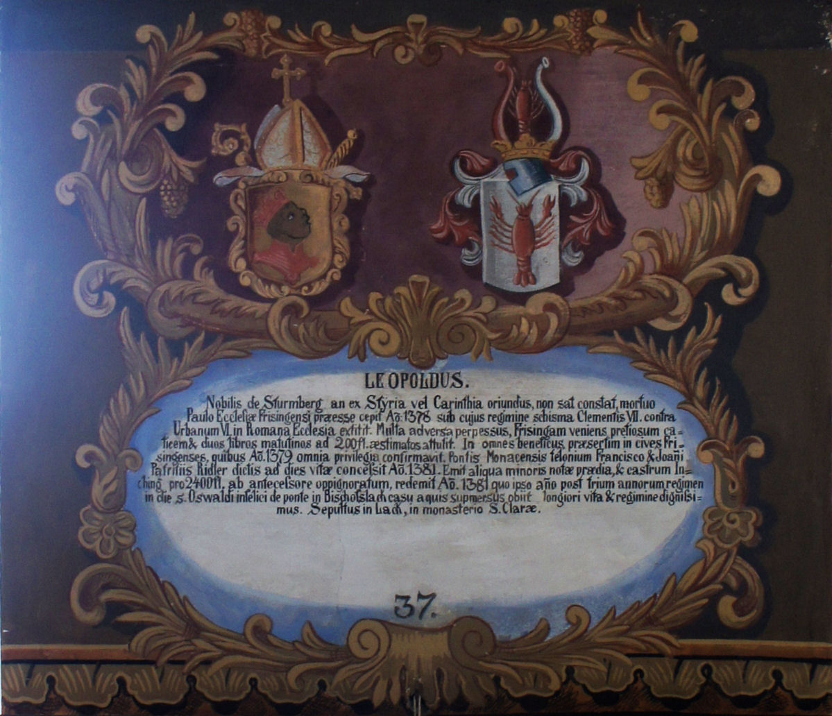 Wappentafel von Leopold von Sturmberg, Fürstbischof von Freising, im Fürstengang zwischen Fürstbischöflicher Residenz und Freisinger Dom. Links das geistliche, rechts das persönliche Wappen, darunter ein lateinischer Text mit kurzer Biographie.